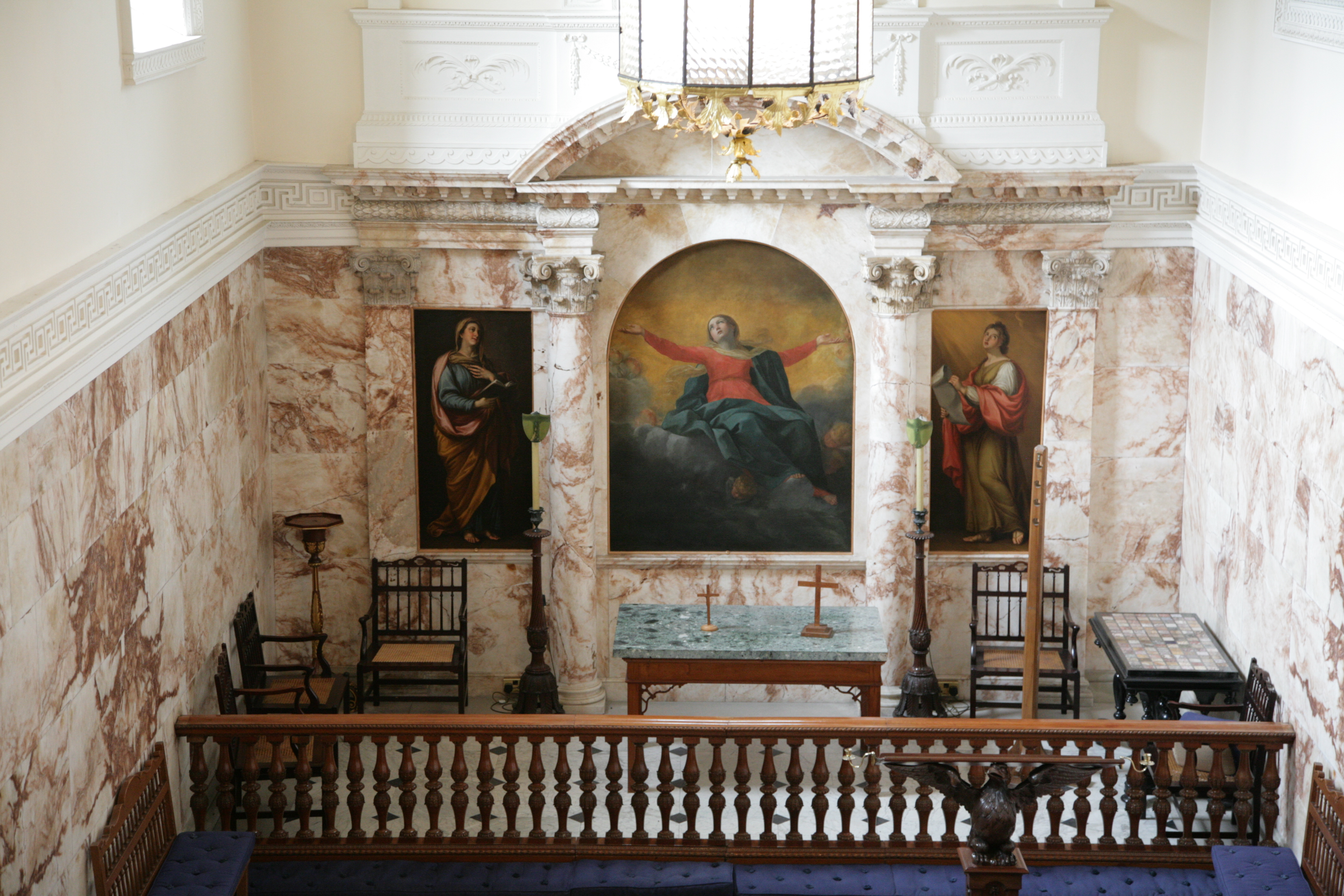 Holkham Hall in Norfolk. The Chapel